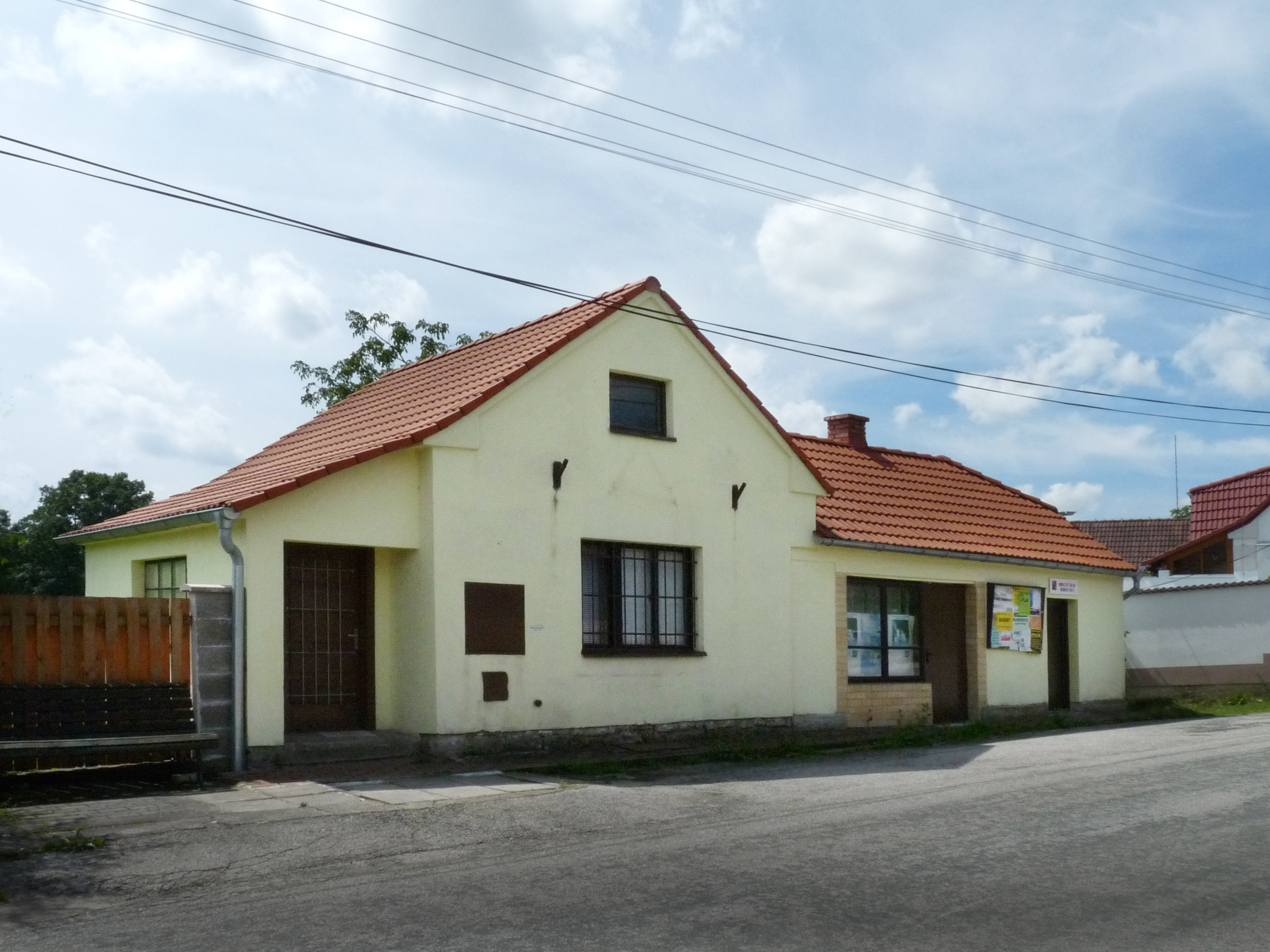 Municipal authority building in Borovnice, České Budějovice district, Czech Republic